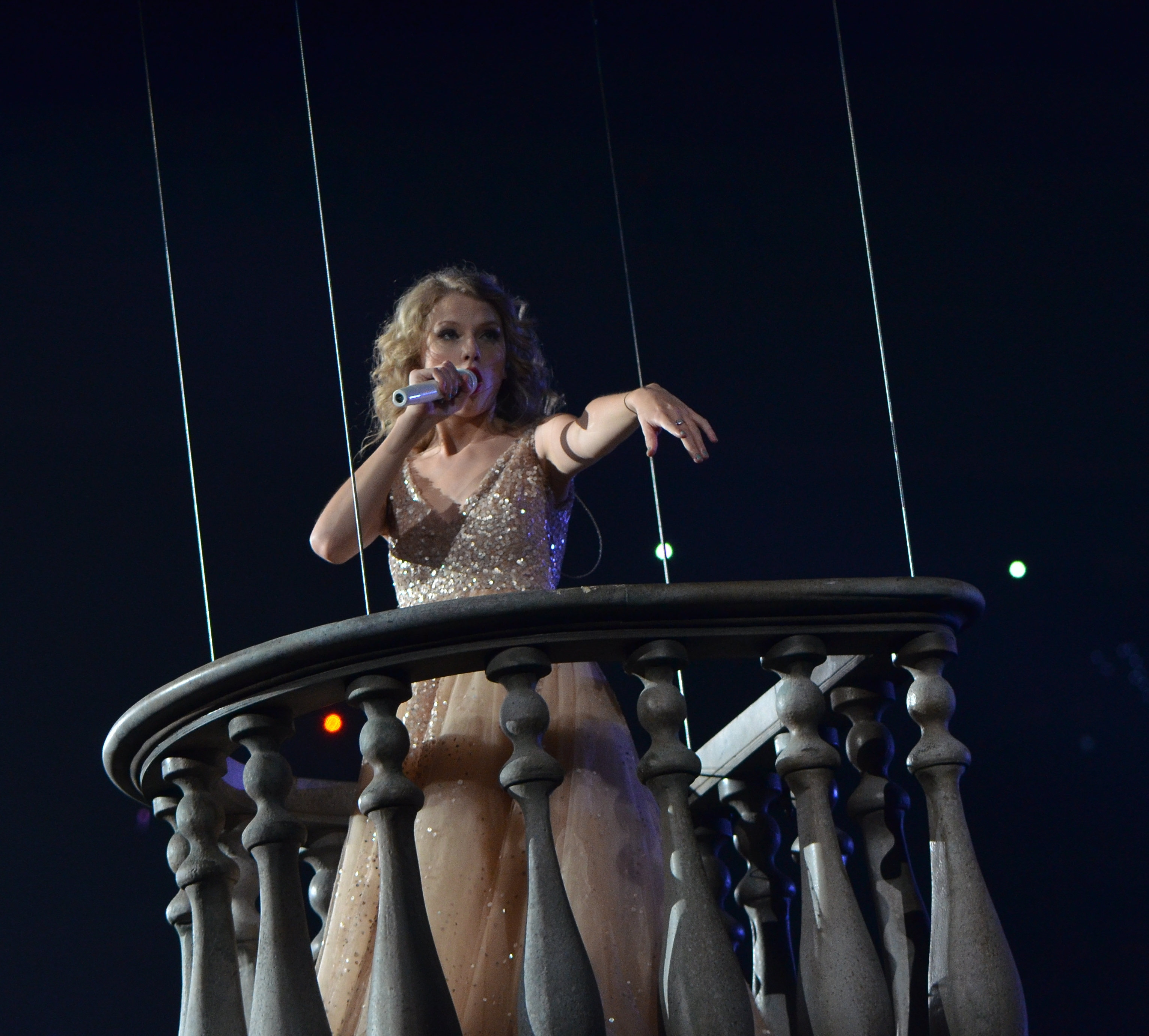 Taylor Swift performing live "Love Story" in the American Leg on July.